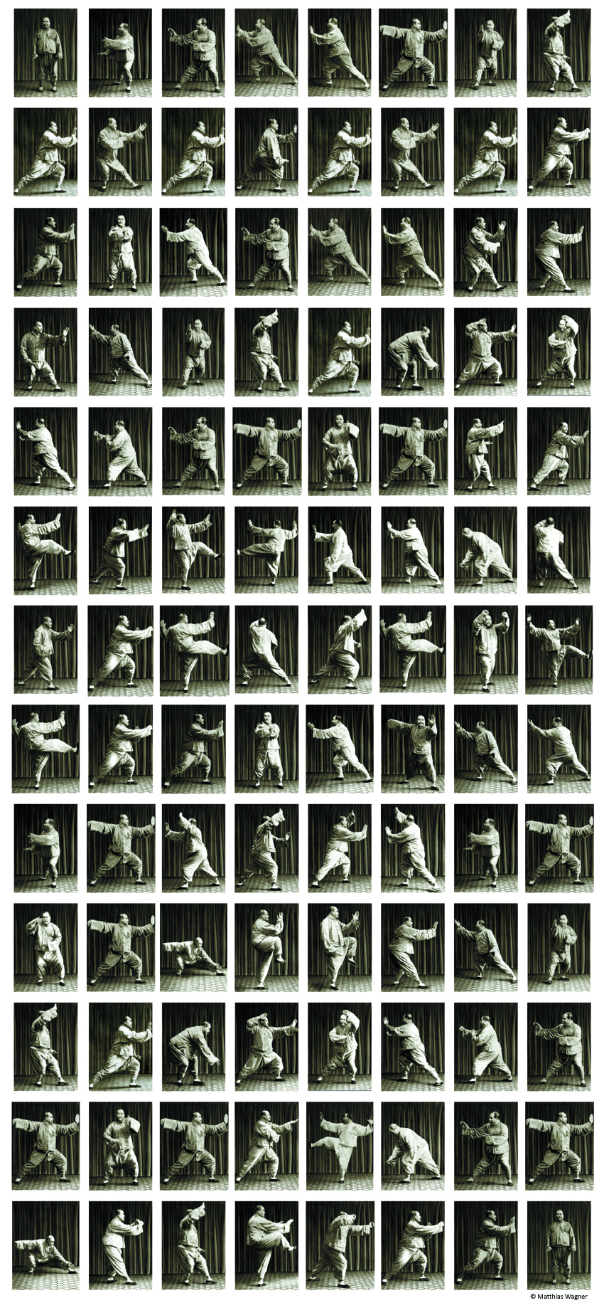 104 pictures show Yang Chengfu performing the taijiquan form